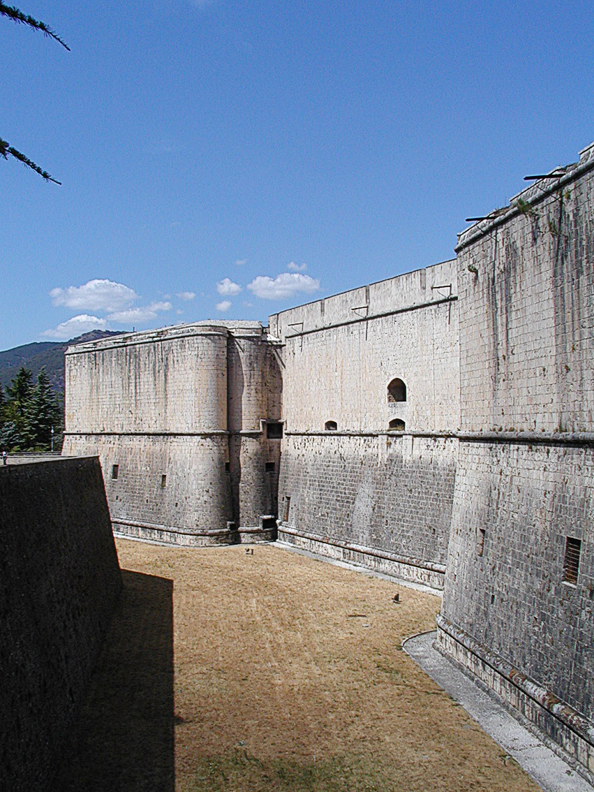 Forte Spagnolo ("Spanish Fortress"